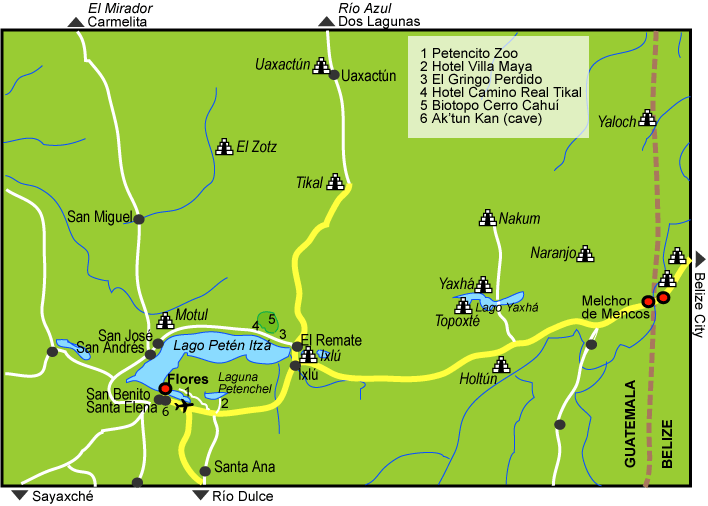 CC-BY-SA 1.0 and GNU FDL file made by Eivind. Found by GURoadrunner at WikiTravel - URL: Dual licensed under CC-BY-SA 1.0 and GNU FDL according to author at that site.